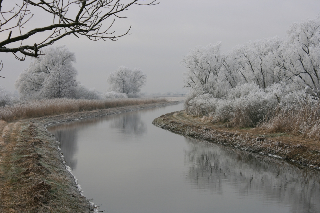 Havelländische Große Hauptkanal (Havelland Great Main channel) in Havelländischen Luch near Senzke in Brandenburg, Germany